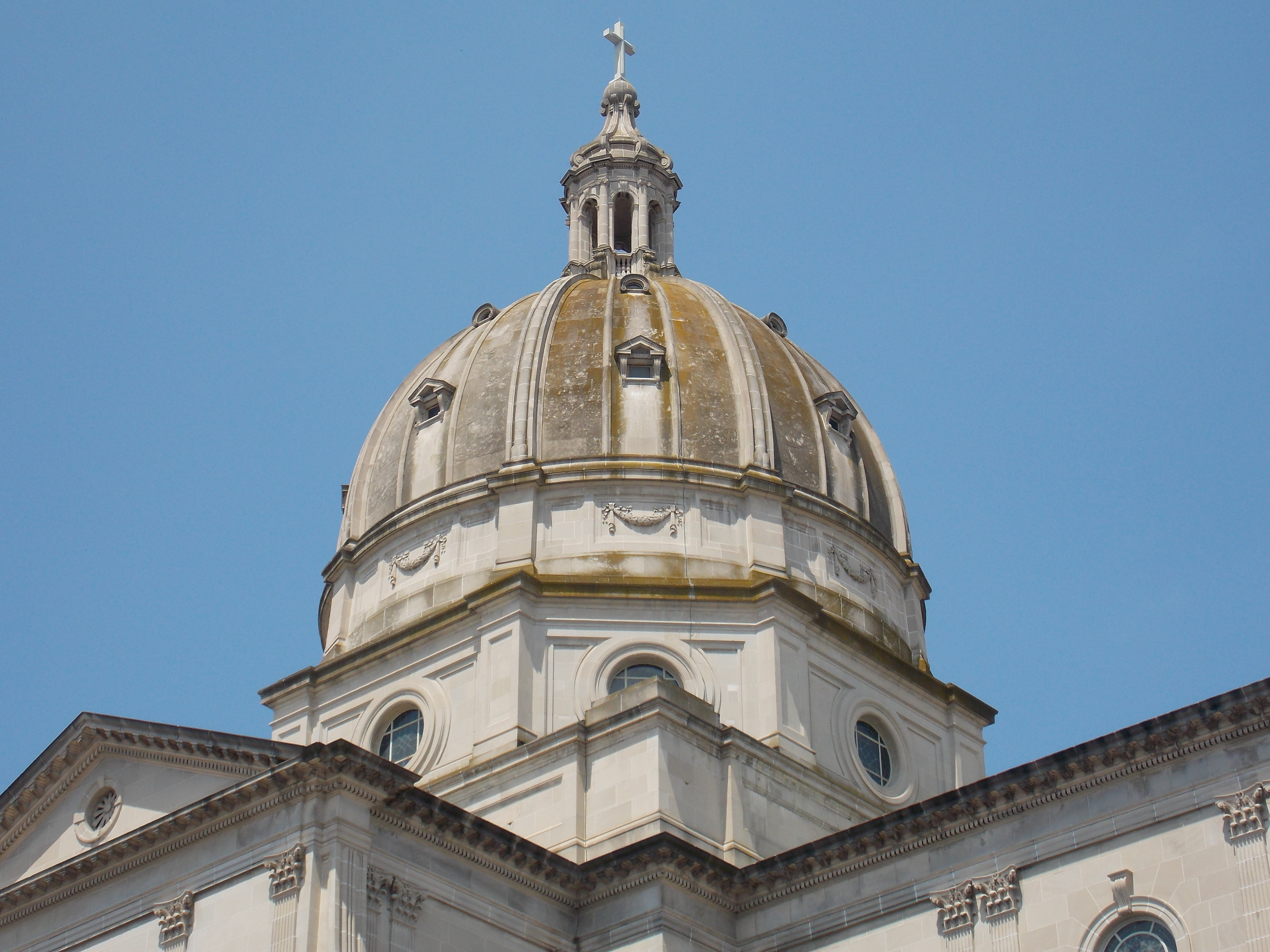 The dome of the Cathedral of the Blessed Sacrament in Altoona, Pennsylvania.